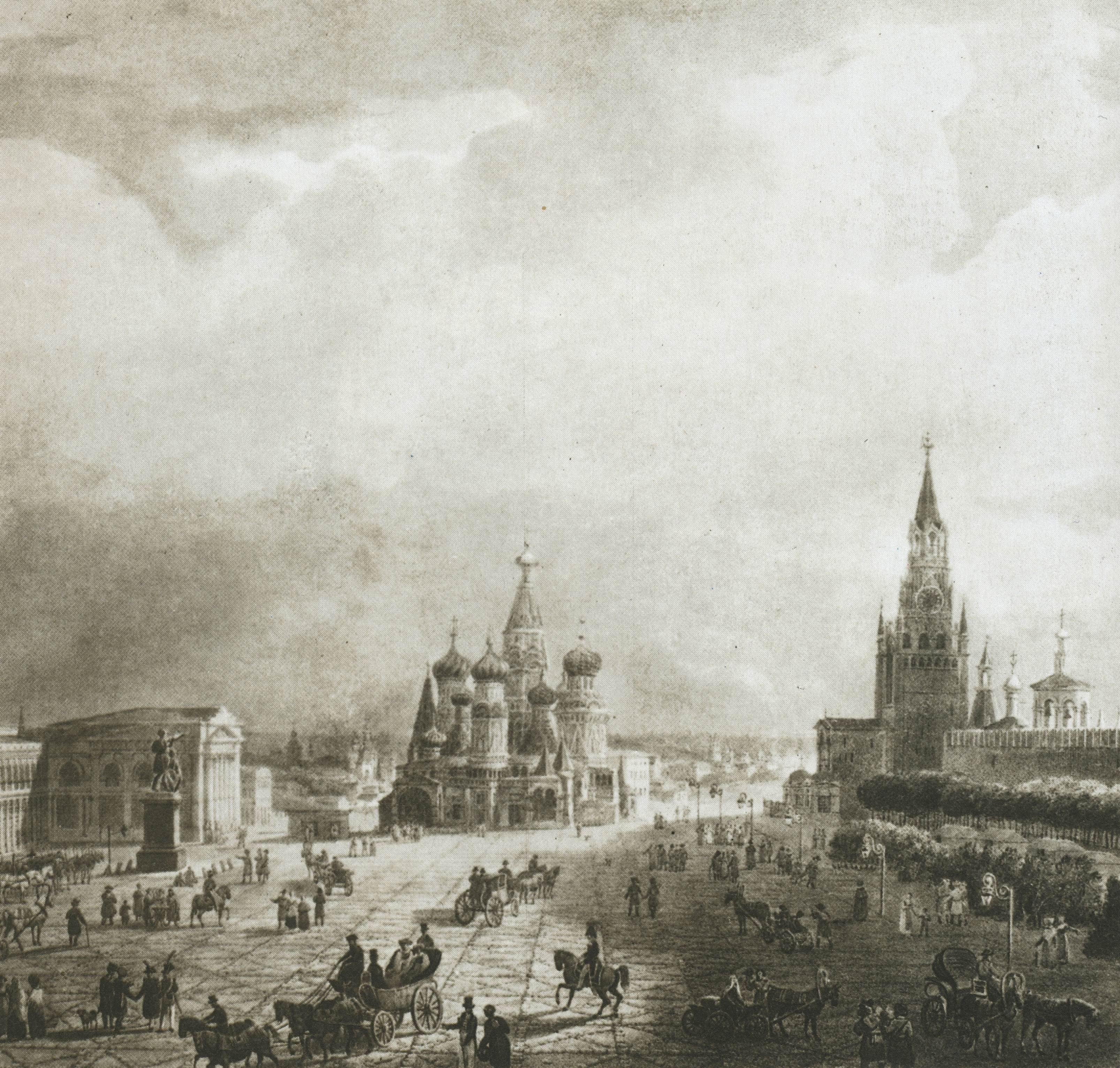 Moscow_University